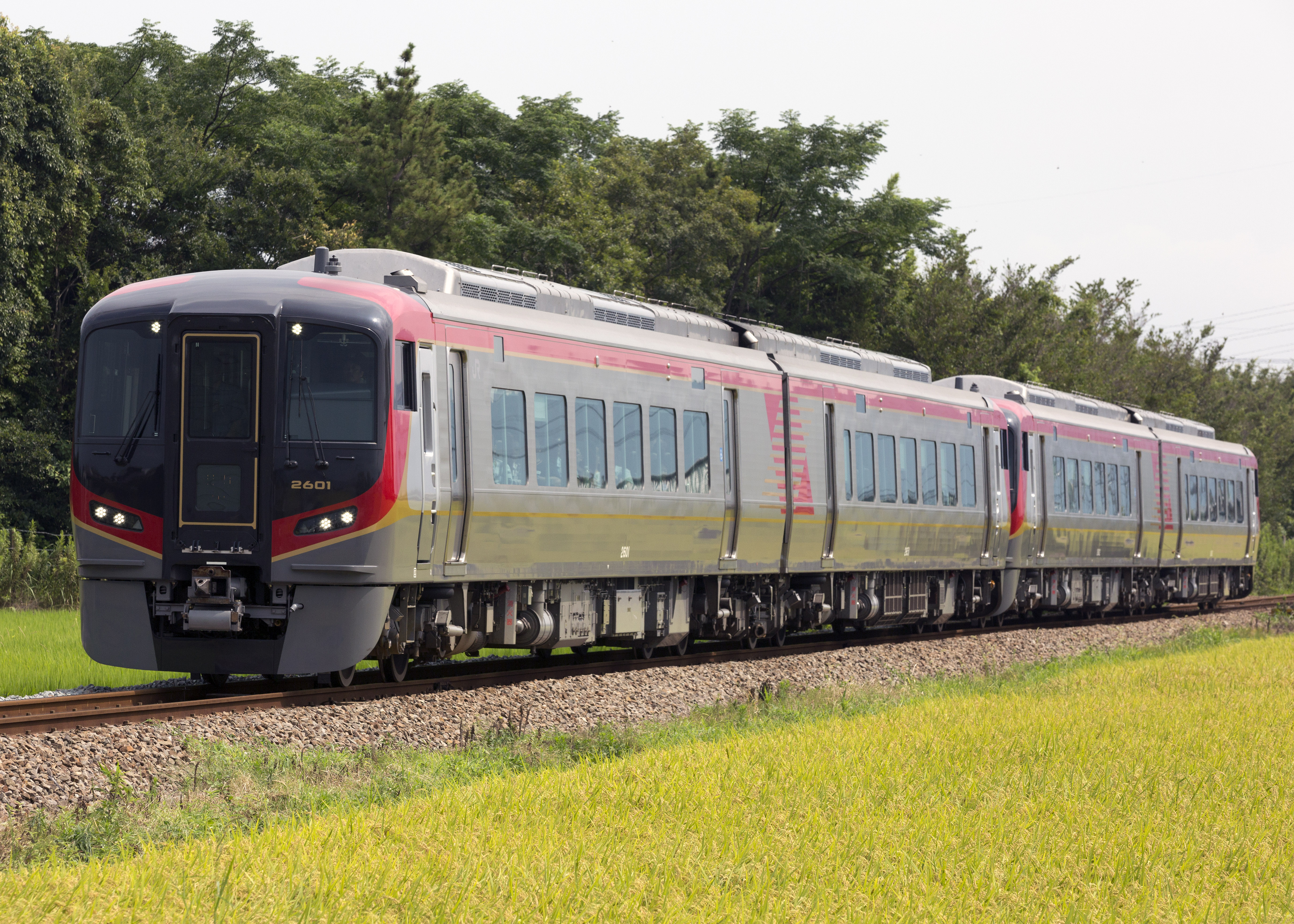 JR Shikoku 2600 series 2-car DMU sets 2601 and 2602 between Shozui and Yoshinari stations on the Kotoku Line on a special charter service